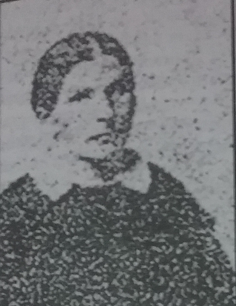 An old photo of Emilie Christaller, nee Ziegler, wife of Johann Gottlieb Christaller, Basel missionary and ethnolinguist on the Gold Coast. Identity of photographer is unknown.